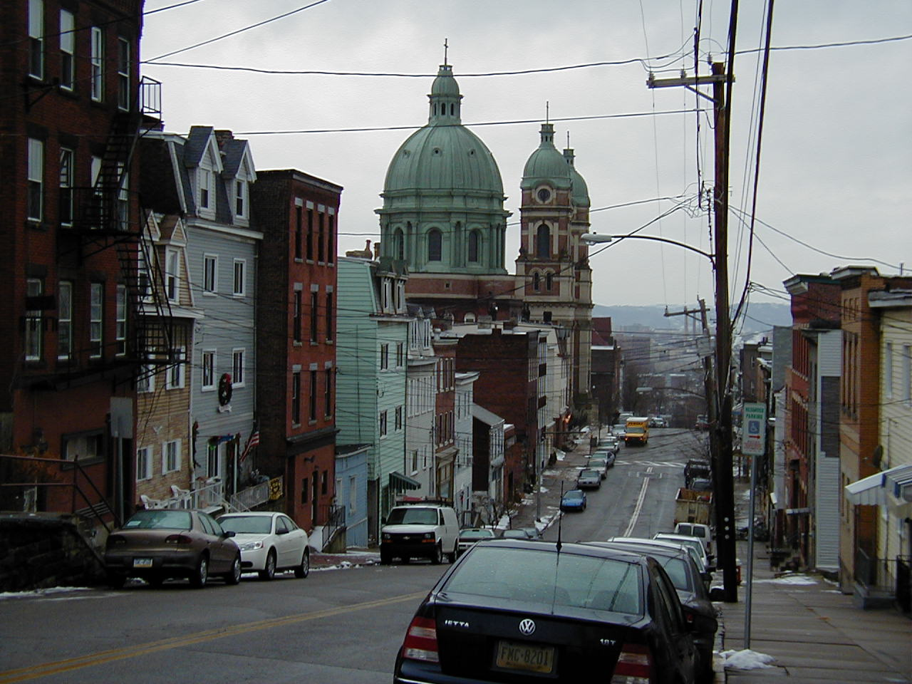 Classic scene in Polish Hill Pittsburgh